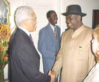 Governor of Bayelsa State Chief Diepreye Alamieyeseigha (right) with U.S. Ambassador to Nigeria Howard F. Jeter (left), July 6, 2001